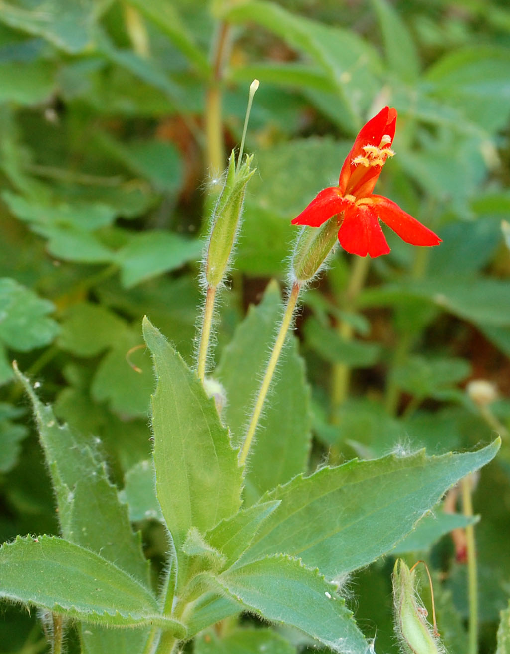 Mimulus cardinalis — scarlet minkeyflower. In the Mazatzal Mountains, Maricopa County, central Arizona.